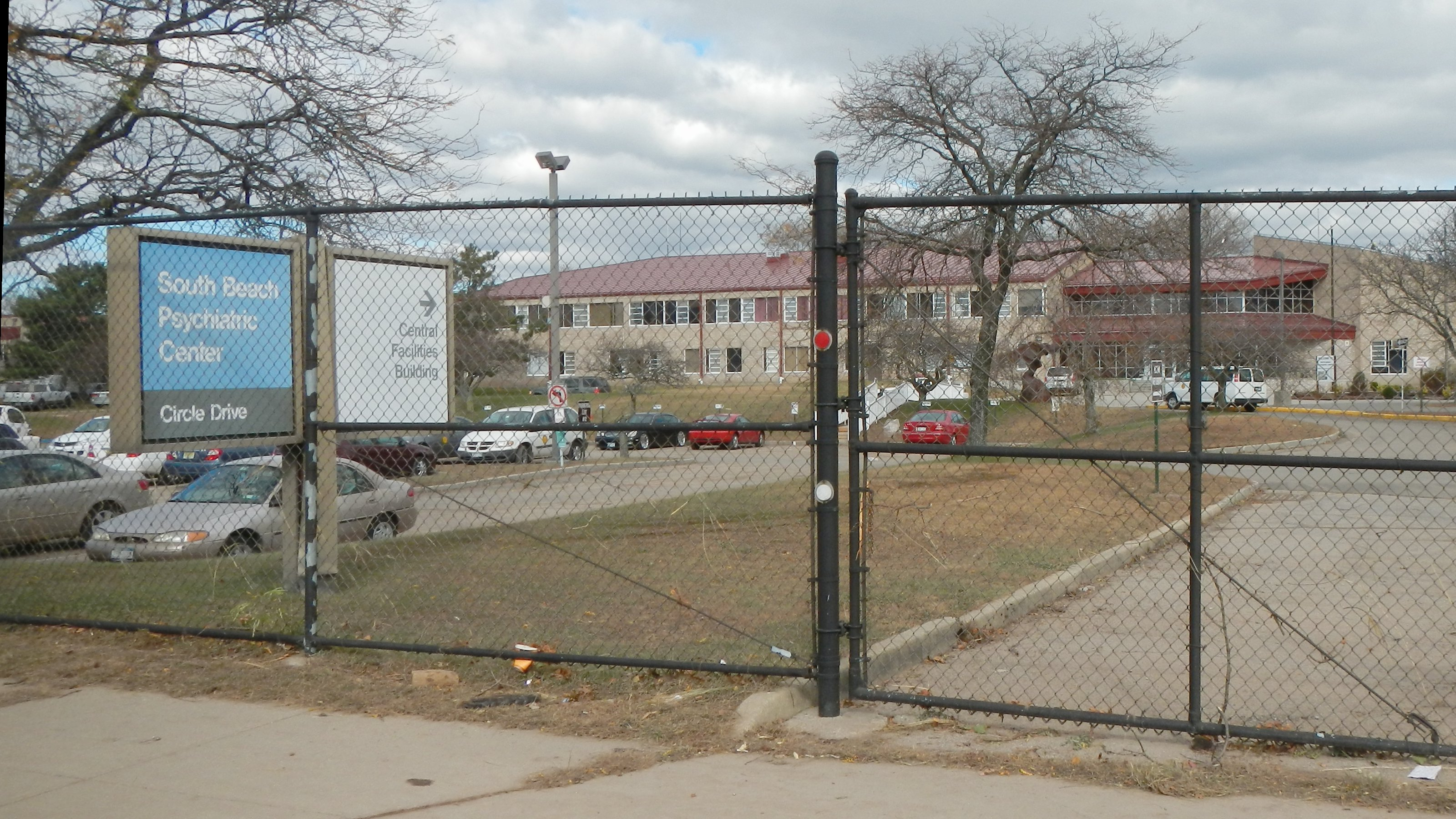 Looking north at hospital building.